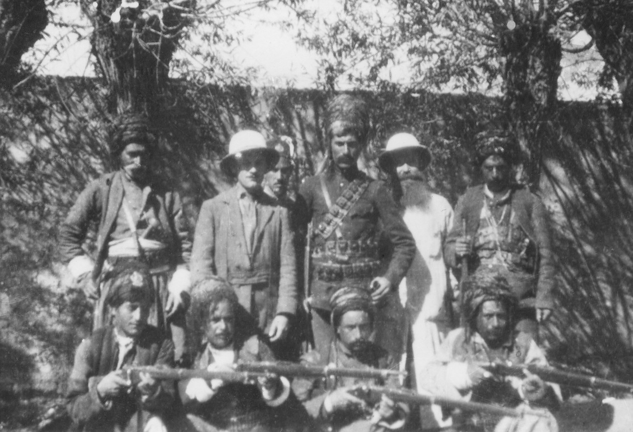 Kurdish warlords. Front and center is Simko. To his left, Dr. Wilder P. Ellis, and to his right is Dr. William A. Shedd.